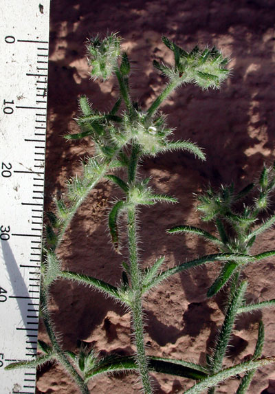 Cryptantha angustifolia, Narrow-leaf Popcorn Flower. Notice the stiff, bristly hairs, the scorpioid inflorescence, and very small white flowers. Phoenix,Maricopa County, Arizona, USA